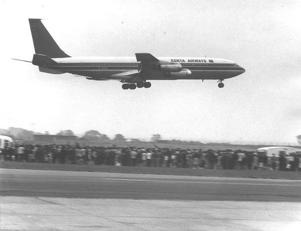 KQ B707 in NBO